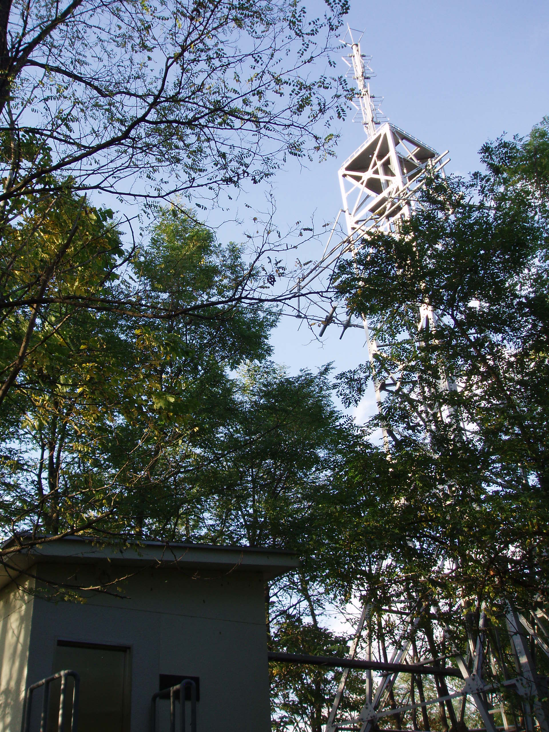 NHK Mikasa Broadcasting Relay Station